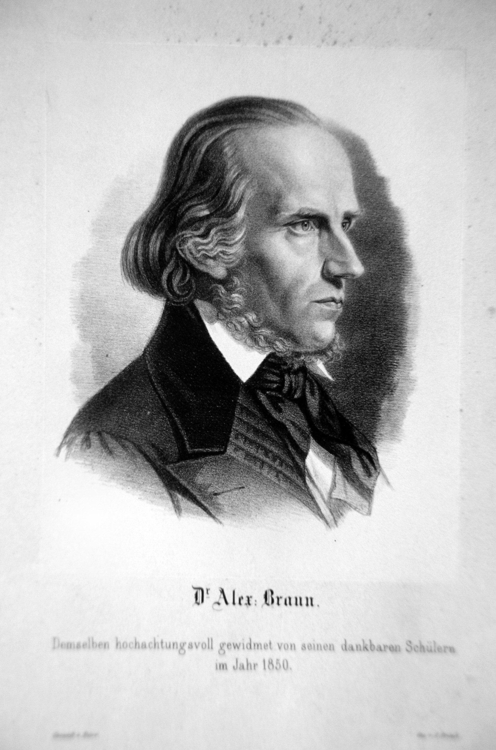 Alexander Braun (1805-1877) German Botanist Lithograph by an unknown artist, 1850